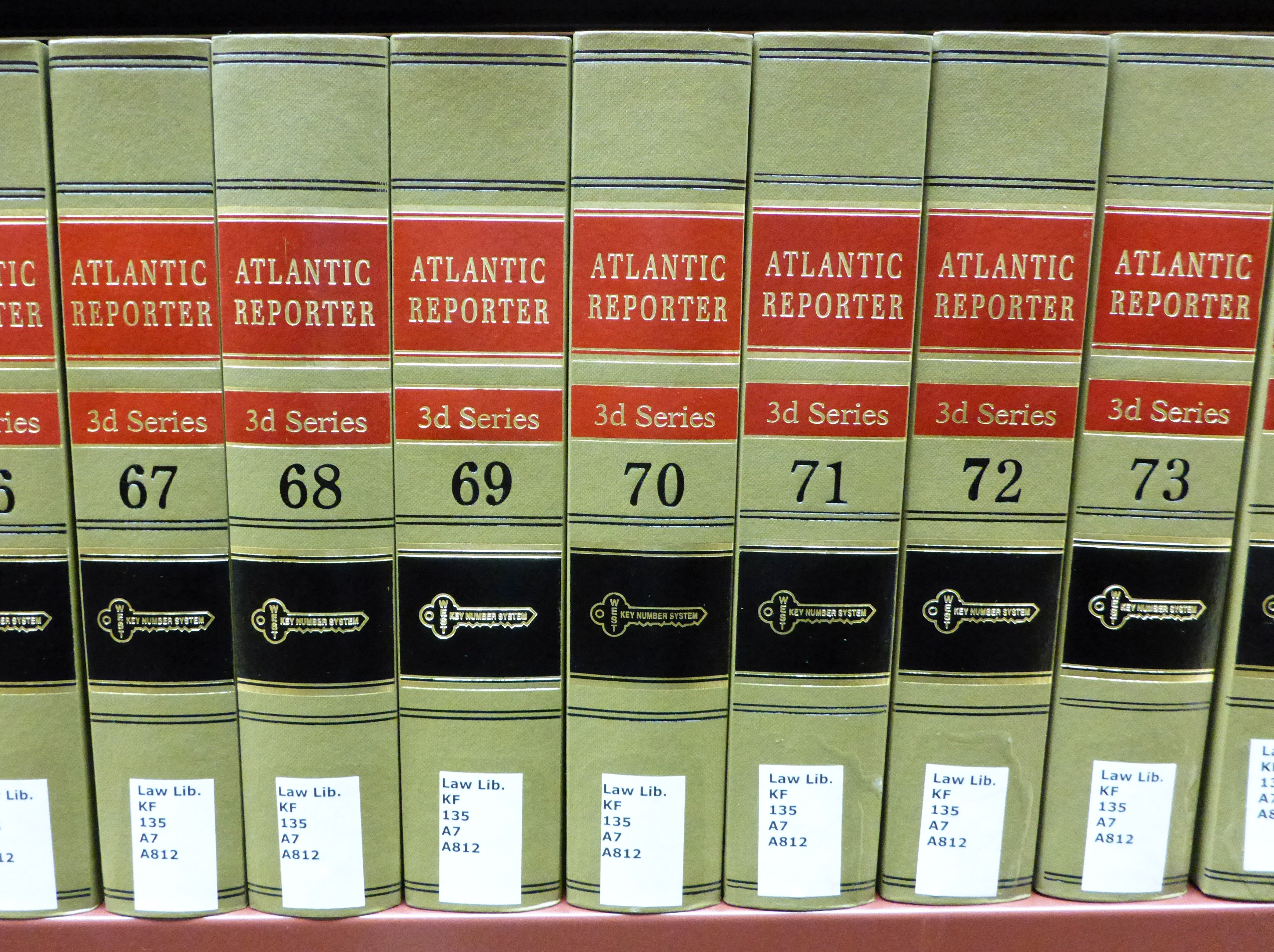 Atlantic Reporter volumes in a law library in Los Angeles, California. Photographed by user Coolcaesar on October 25, 2014.